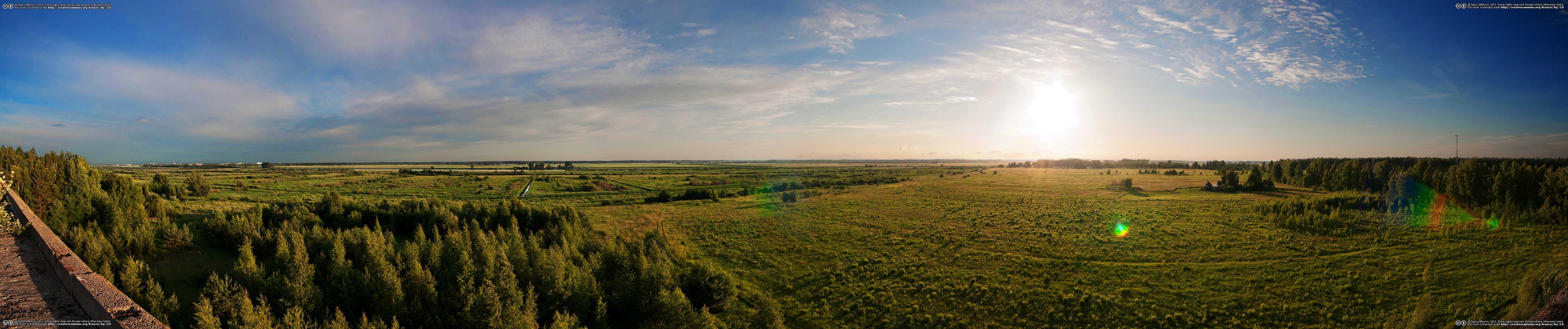 Sunset at Vitolini, panoramic view from rooftop